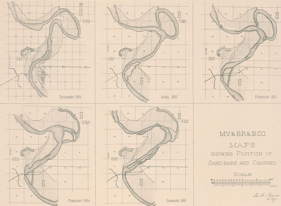 Maps showing sand bars and channel (Missouri) at Blair Crossing, Nebraska, 1880-1885